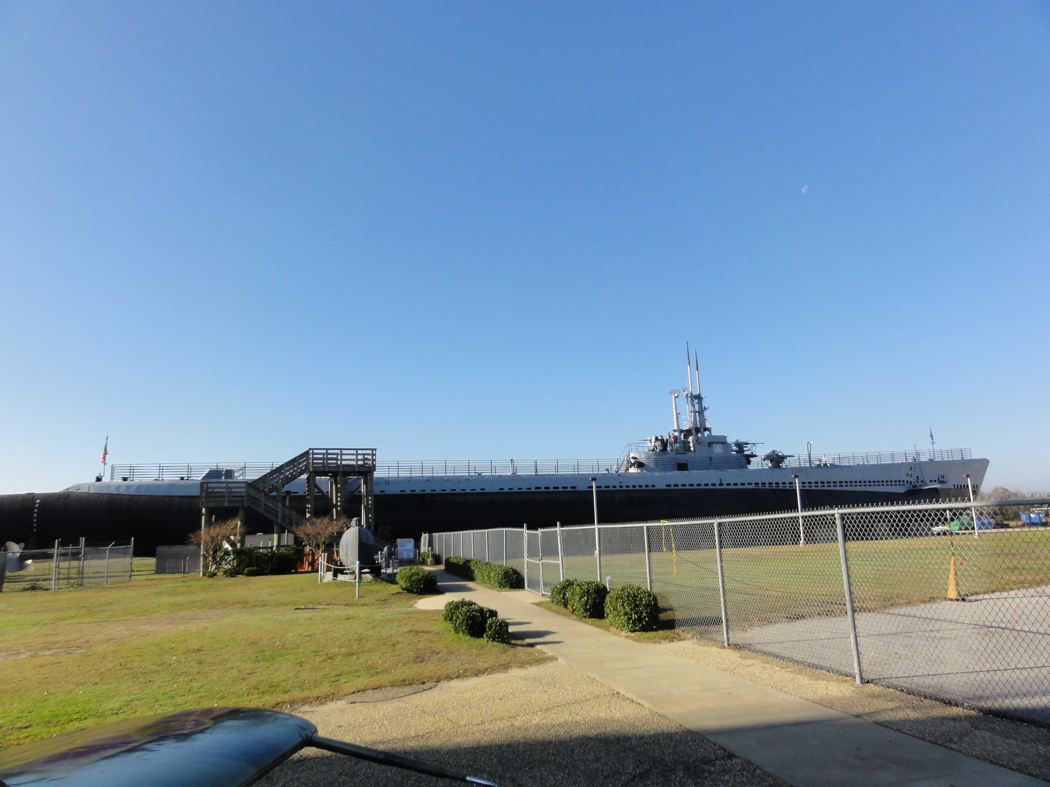 submarine USS Drum (SS-228)